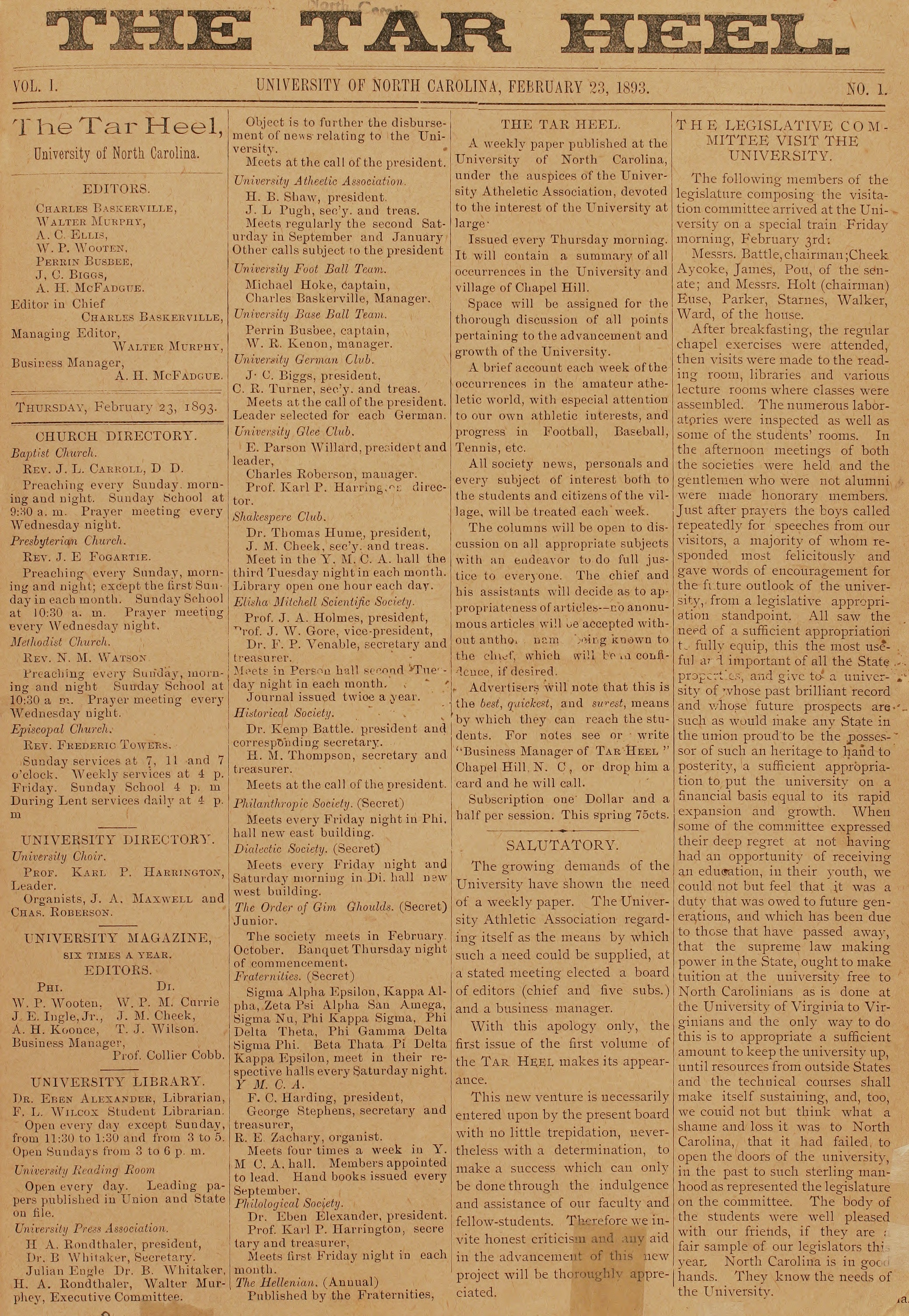 This is the first issue of The Tar Heel (renamed Daily Tar Heel in 1929), published on February 23, 1893 by the University of North Carolina's Athletic Association. It was a weekly publication.